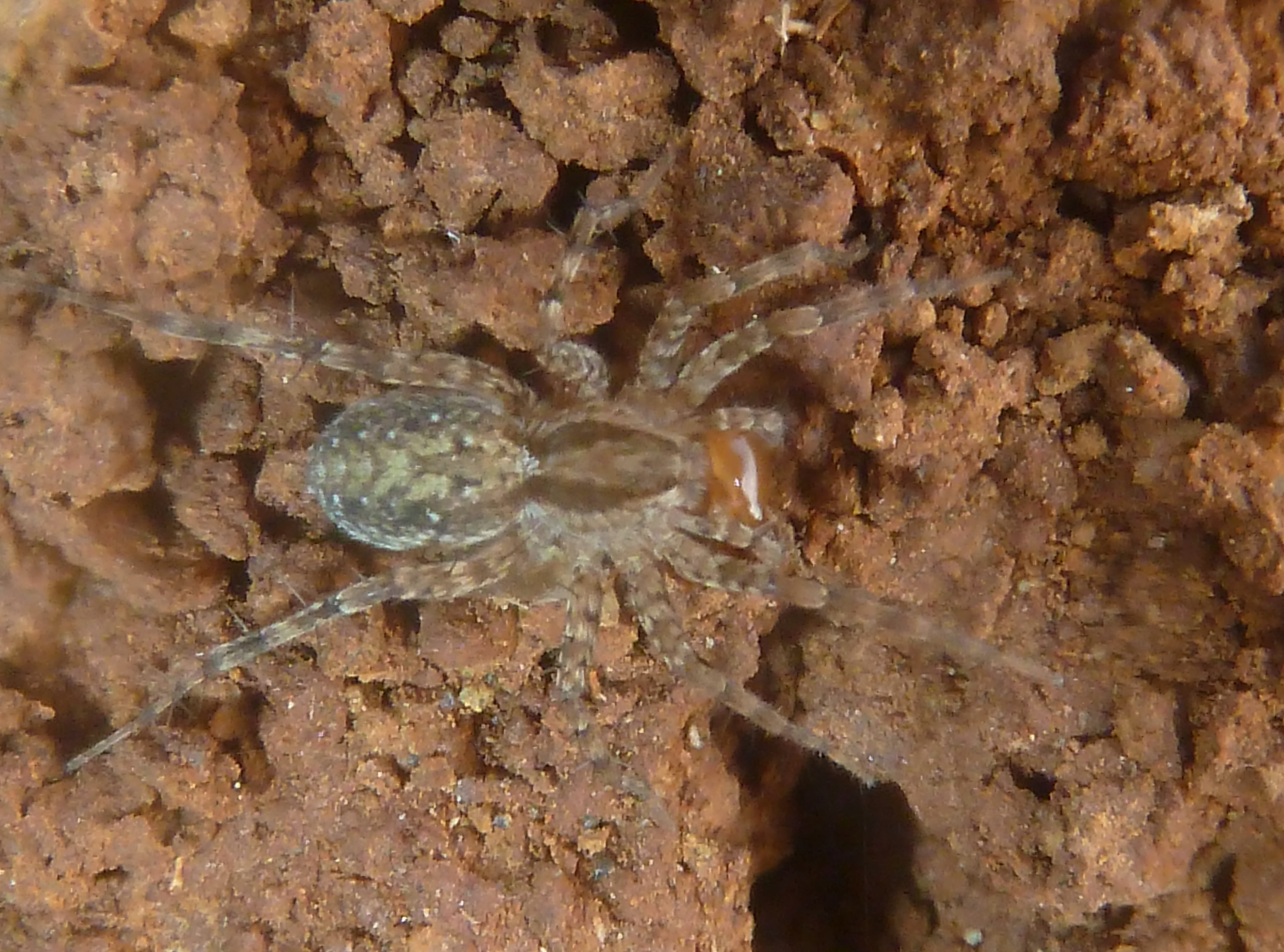 Arctosa sp. on the termite mound of an Odontotermes badius colony. It may have a semi-digested termite in its jaws. 25 46 47 S, 27 45 17 E